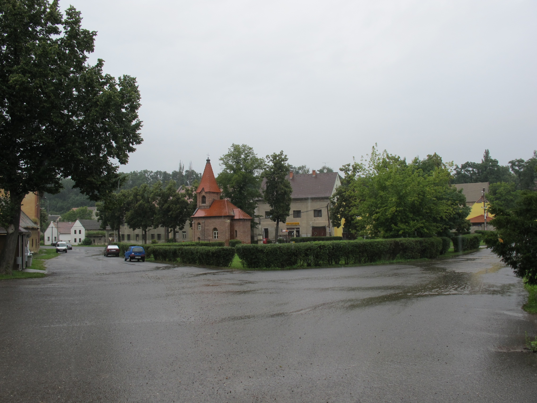 Village square in Lišany